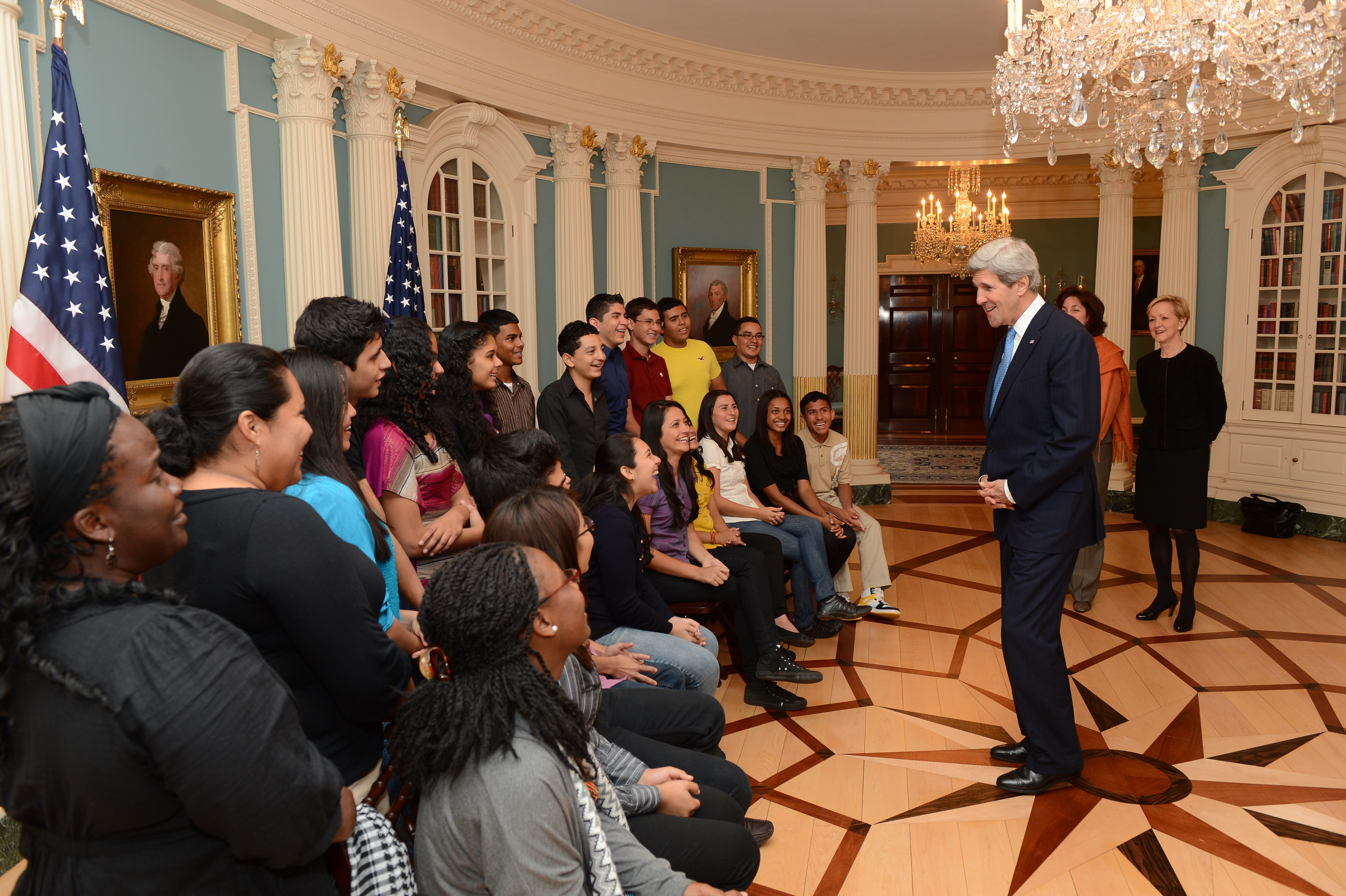 U.S. Secretary of State John Kerry meets with Central American Youth Ambassadors at the U.S. Department of State in Washington, D.C., on March 11, 2013. [State Department photo/ Public Domain]